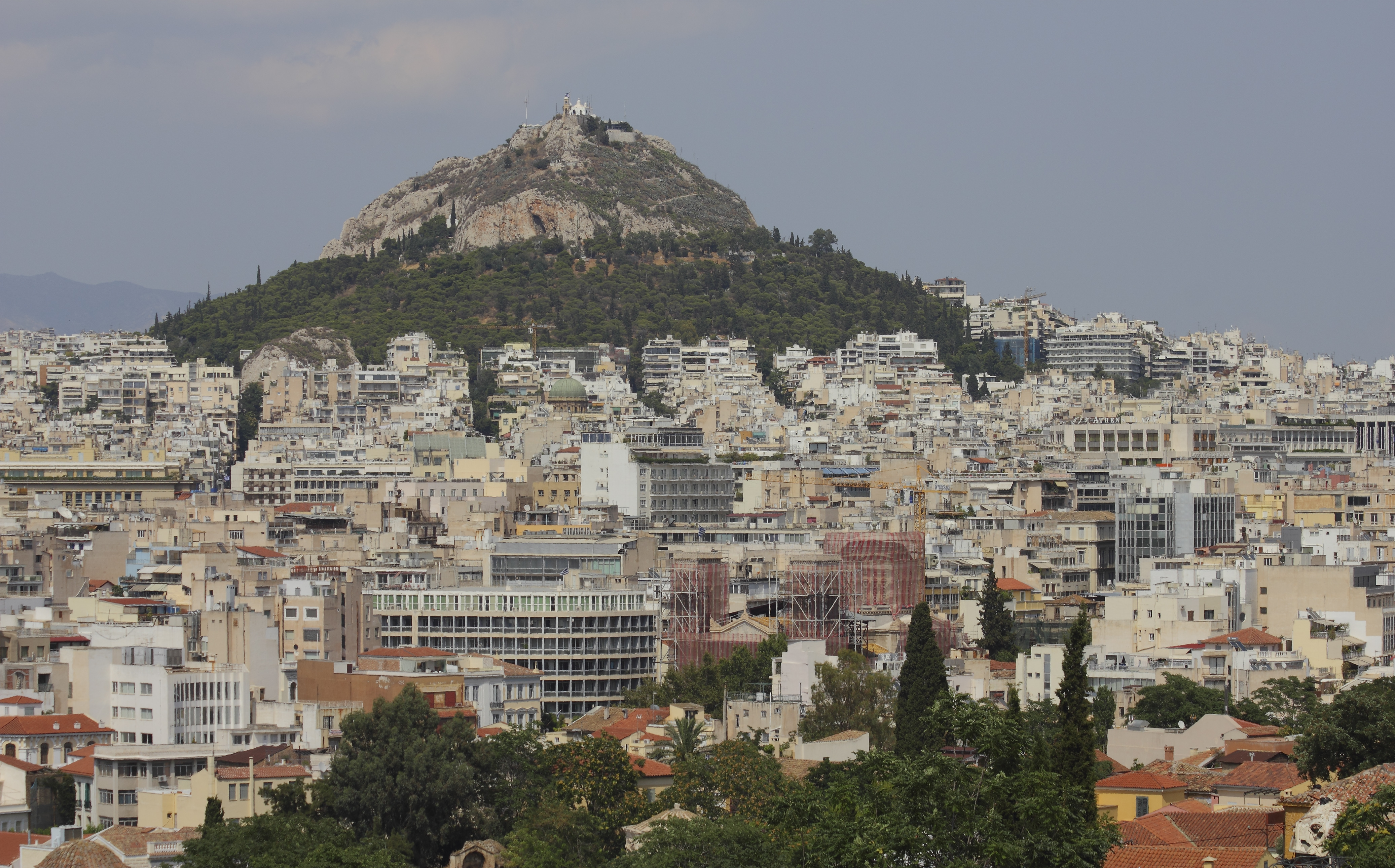 View of Athens (Attica, Greece) from Acropolis hill